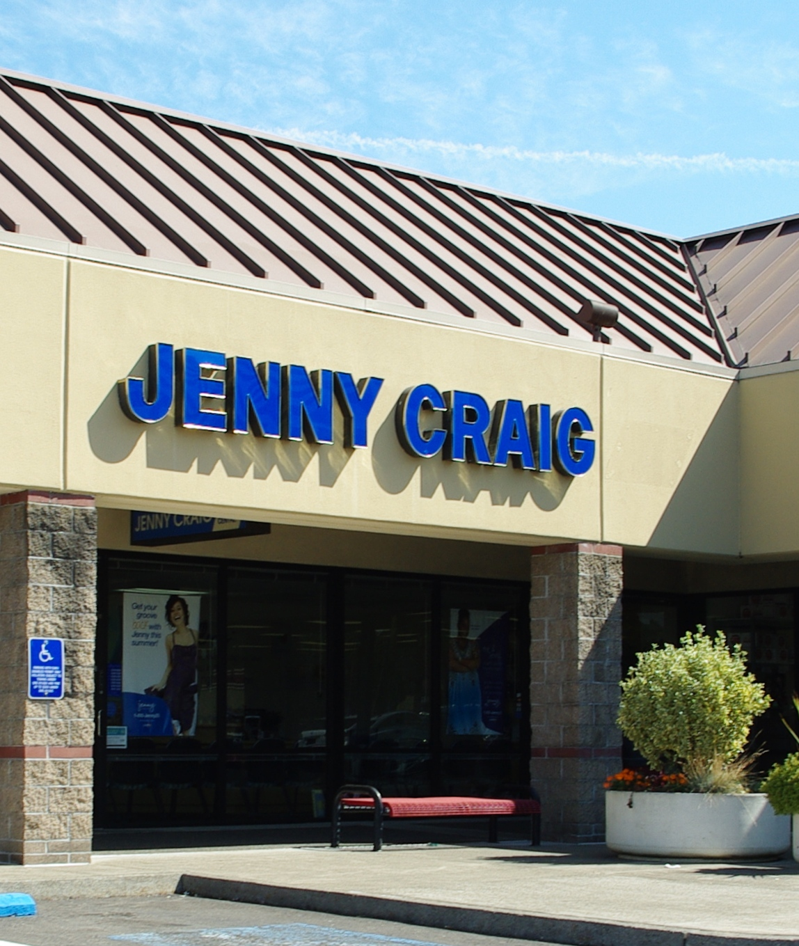 Jenny Craig at the Sunset Esplanade in Hillsboro, Oregon.